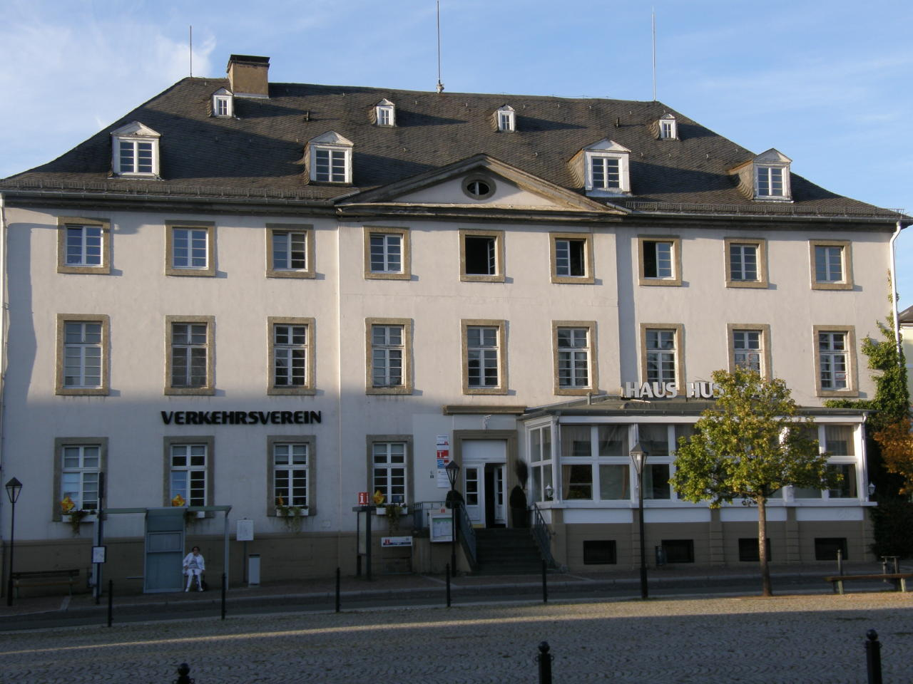 hotel